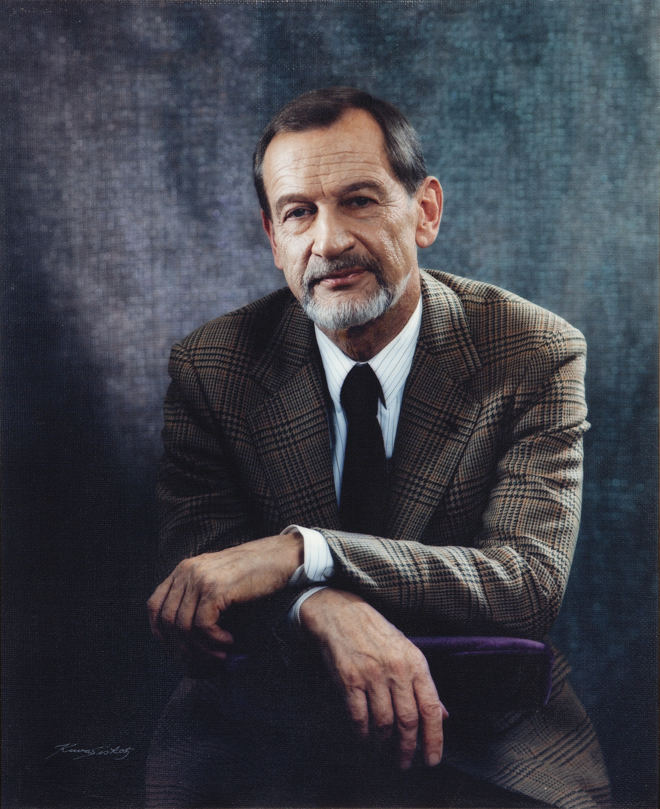 Photograph of the Finnish writer Benedict Zilliacus (1921–2013).